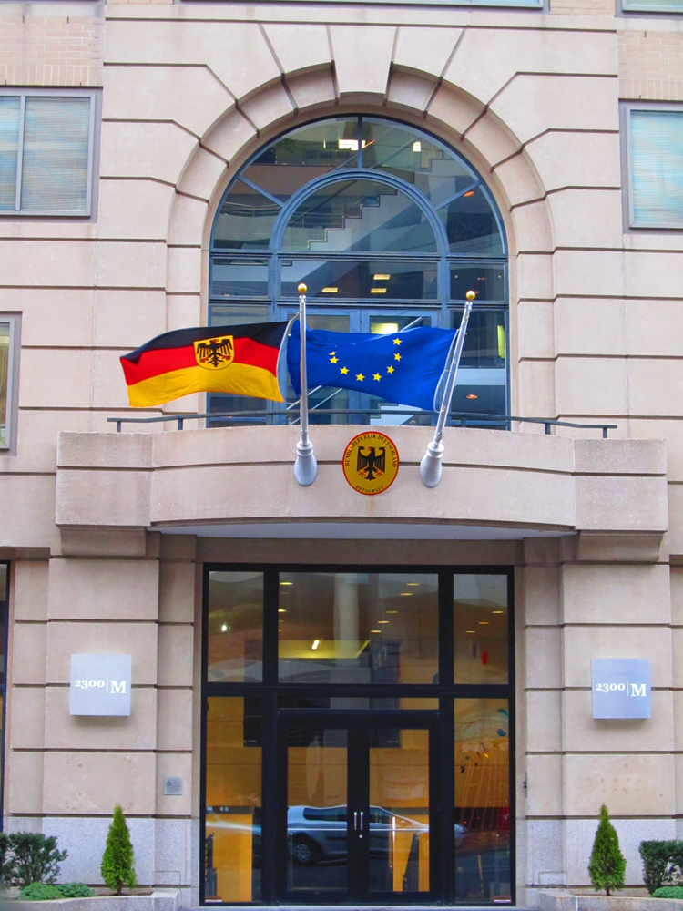 The Embassy of the Federal Republic of Germany in Washington, DC, at 2300 M Street NW